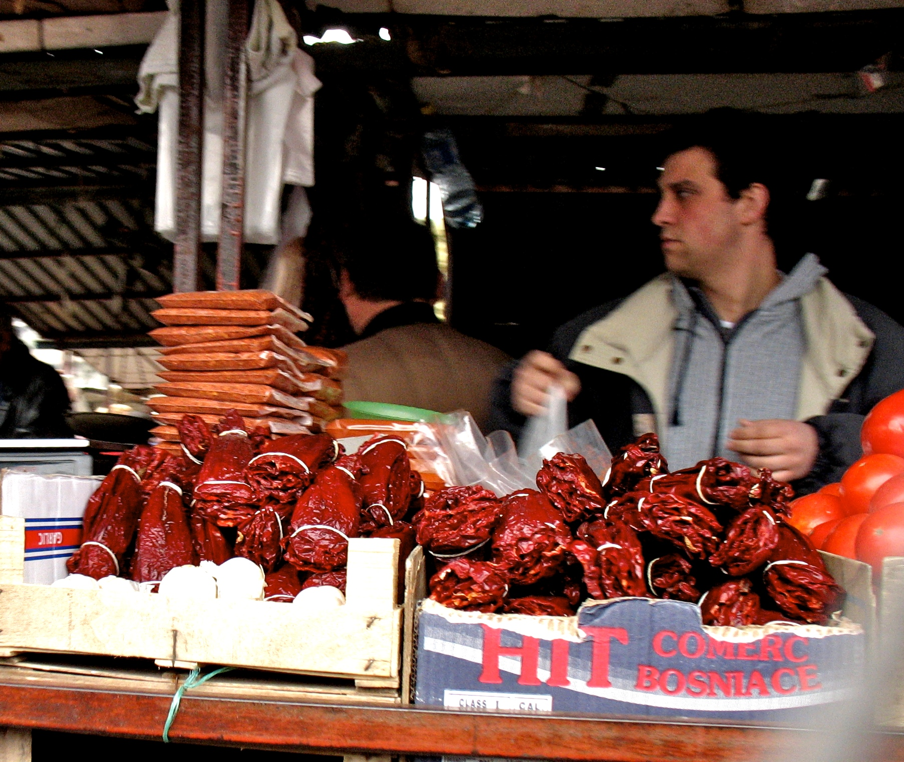 Dried paprika sale at a Belgrade marketplace (ground paprika also in the background).